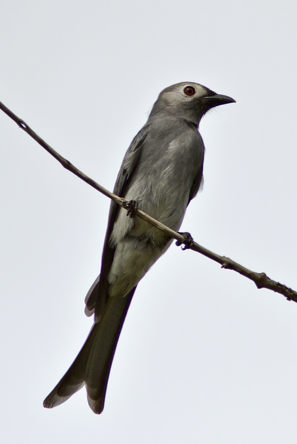 Ashy Drongo at raptor hill (Chumphon) Thailand